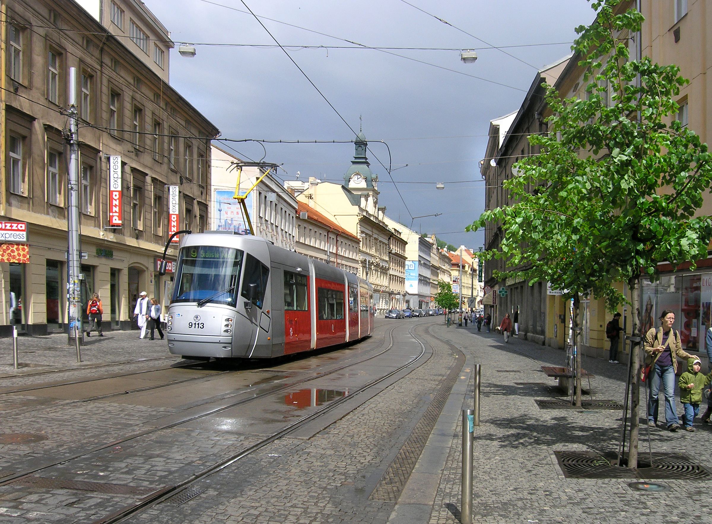 Štefánikova street at Smíchov, Prague, with Škoda 14T tram